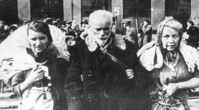 Warsaw Uprising - German Transit Camp in Pruszków (Dulag 121). According to many sources in this photo were depicted: Stanisław Wojciechowski - former President of Poland (1922-1926) and his wife Maria Kiersnowska (right).